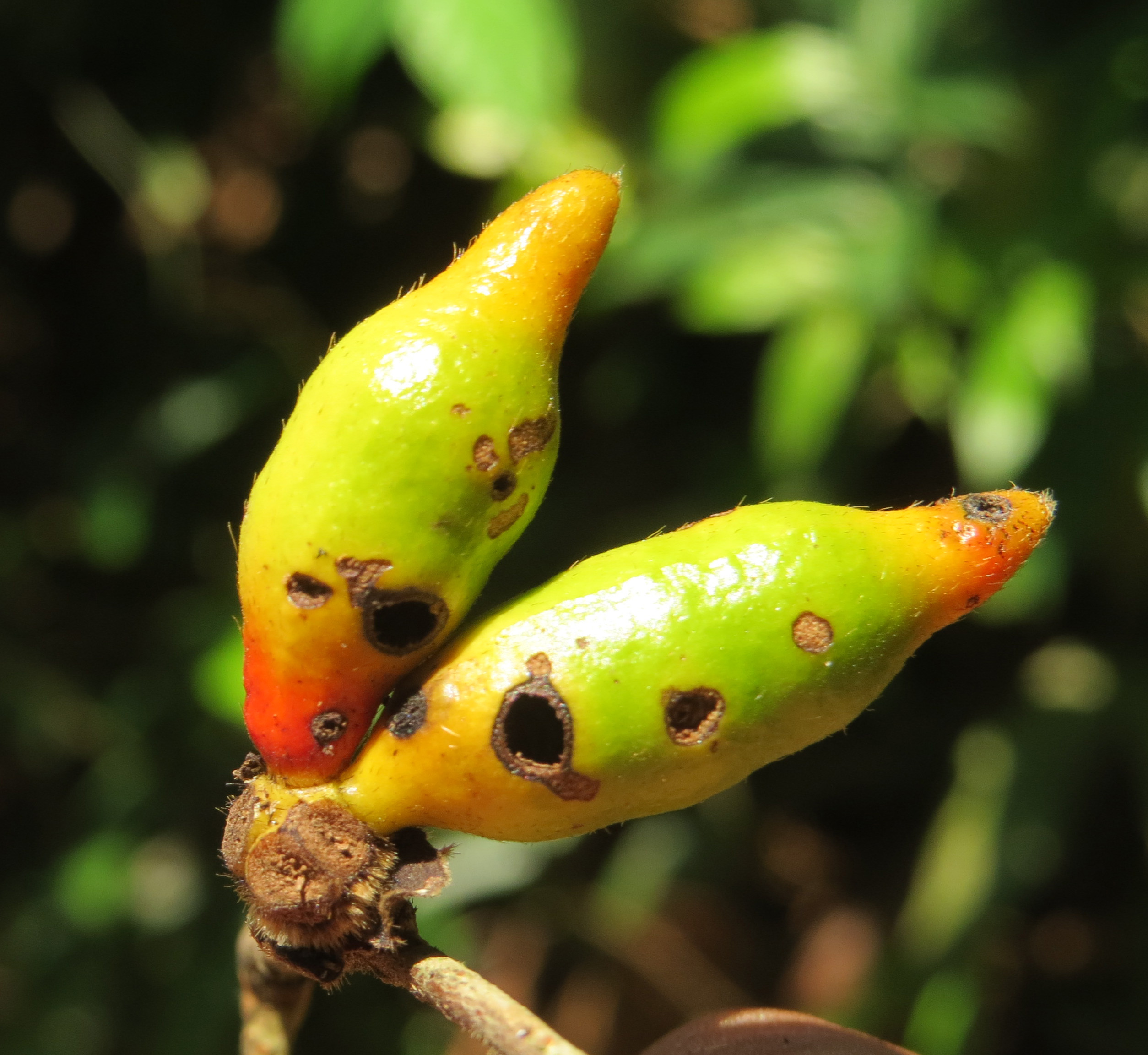 Meiogyne pannosa